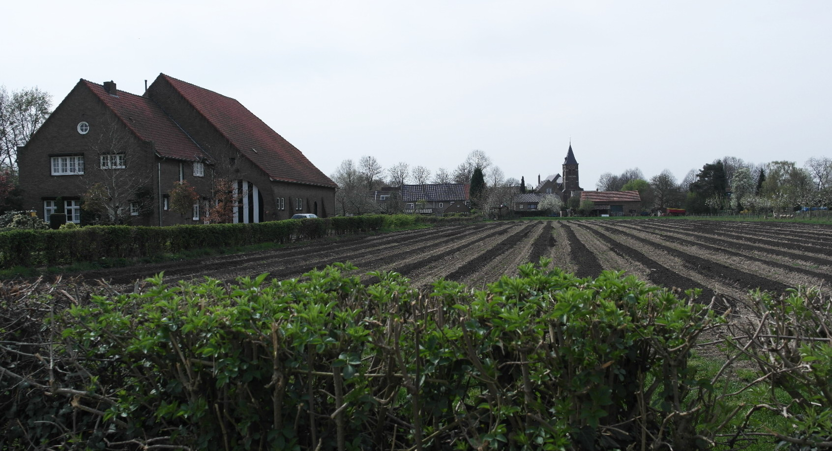 Maastricht, the Netherlands. View of farm houses and fields near Oud-Caberg with the parish church in the background.